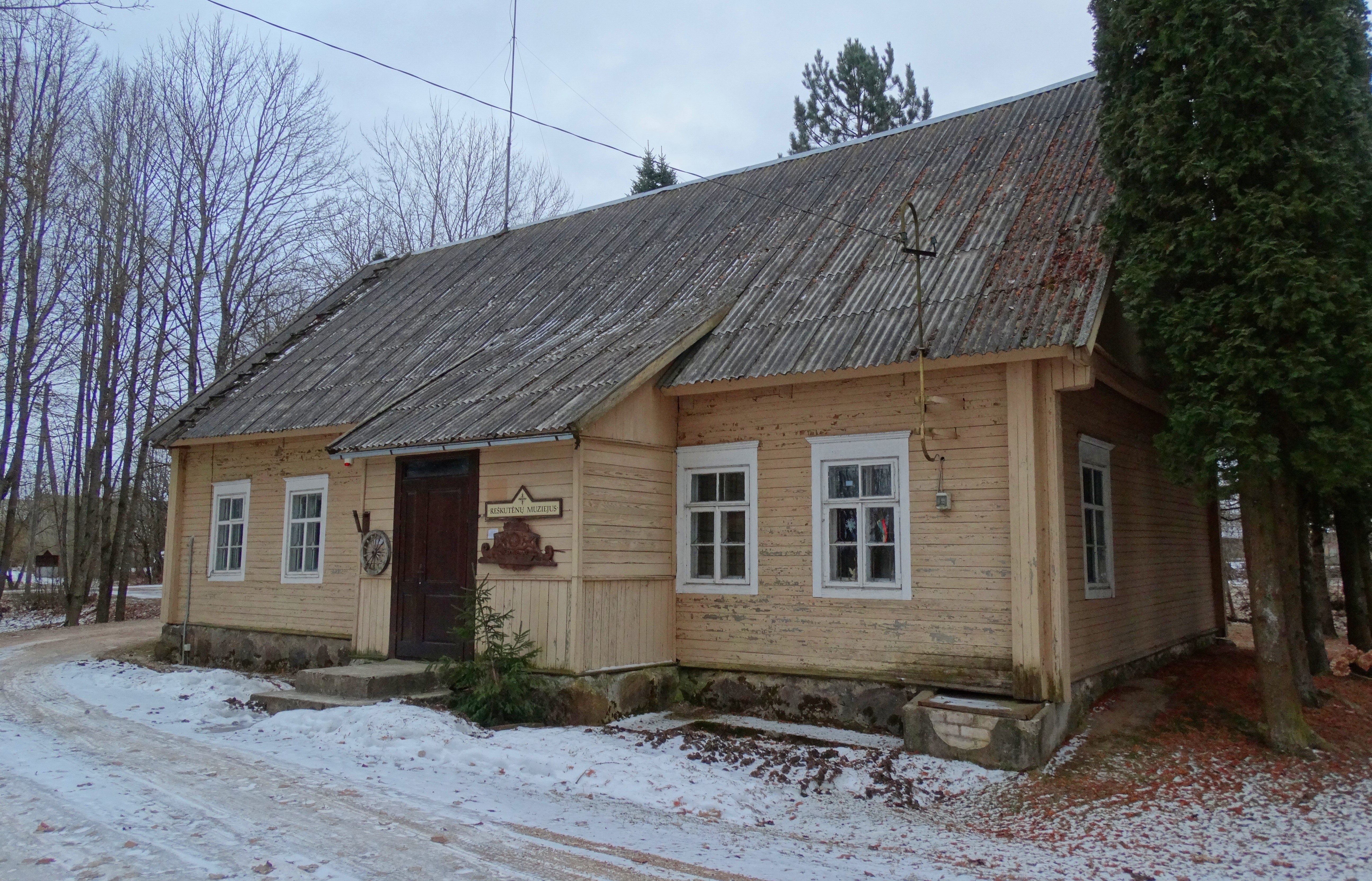 Museum, Reškutėnai, Švenčionys district, Lithuania